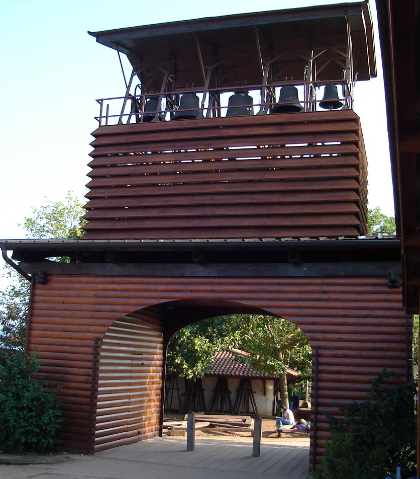 The bell tower in Taizé